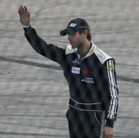 NASCAR driver Chris Wimmer during driver's introductions at the 2010 National Short Track Championship race at Rockford Speedway.